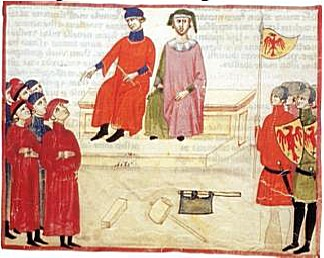 Folcieri da Cavoli